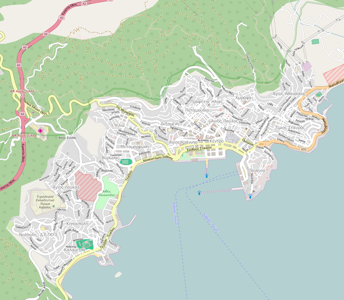 OpenStreetMap - Map of Kavala